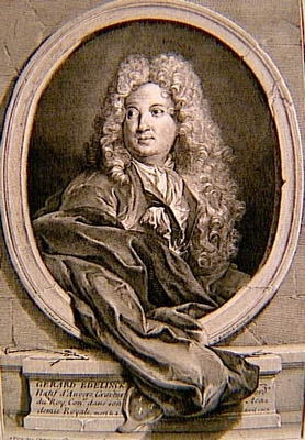 Portrait of French printmaker Gérard Edelinck (1640-1707)